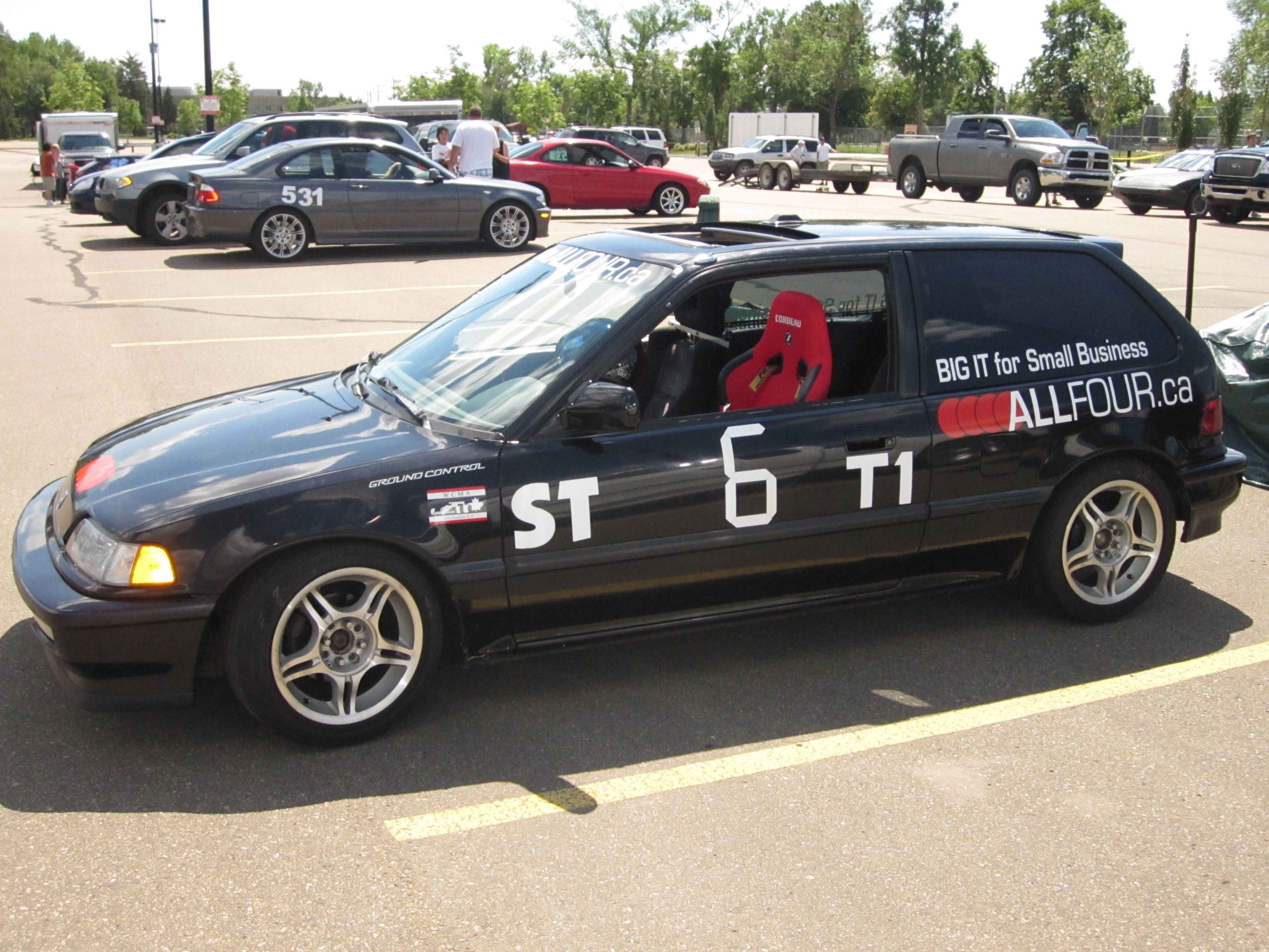 Honda Civic Si 1990 Hatchback - SCCA/ASN Solo2/Autoslalom Car - Street Touring (ST) category